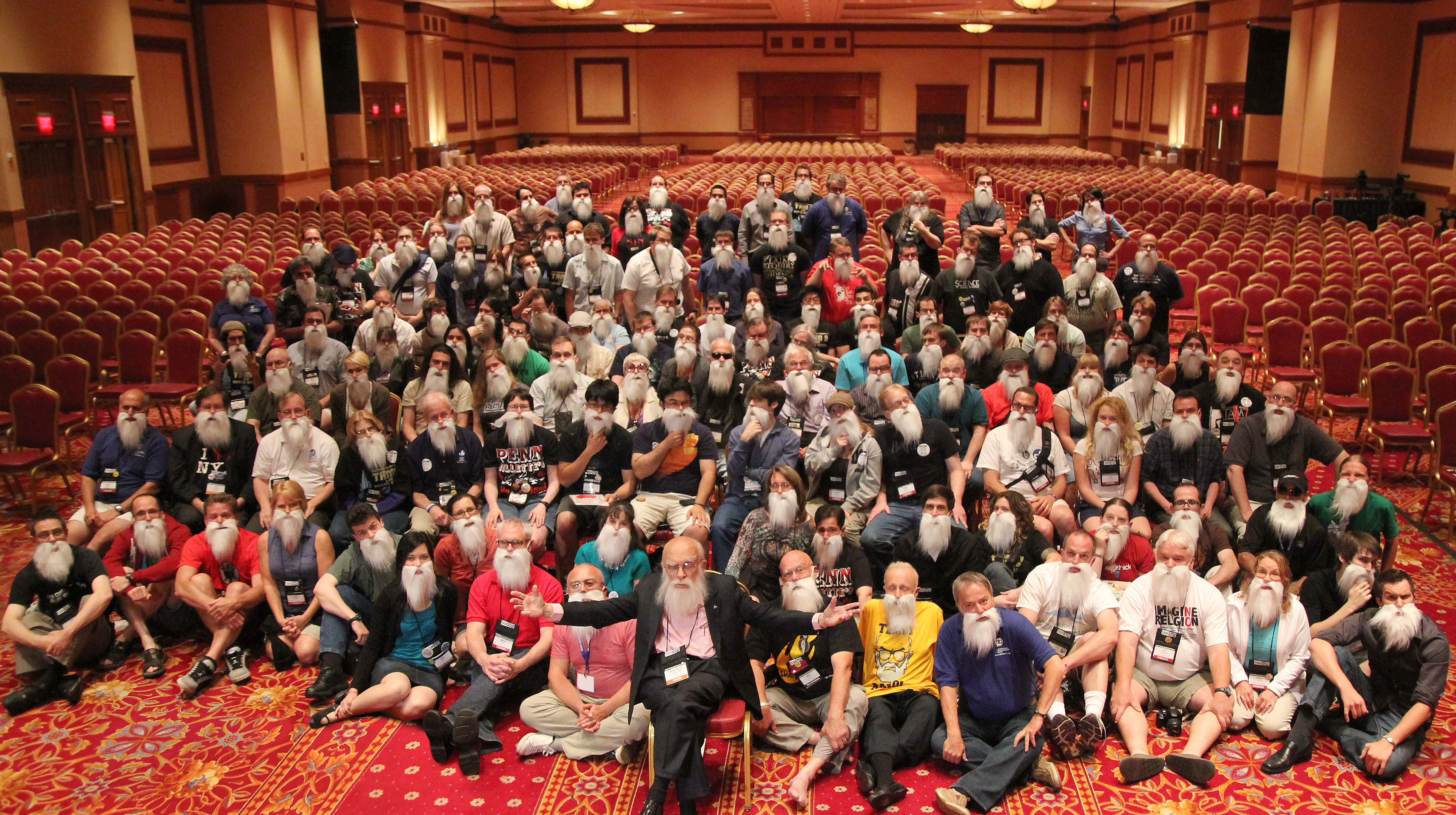 IIG's tribute to James Randi TAM9